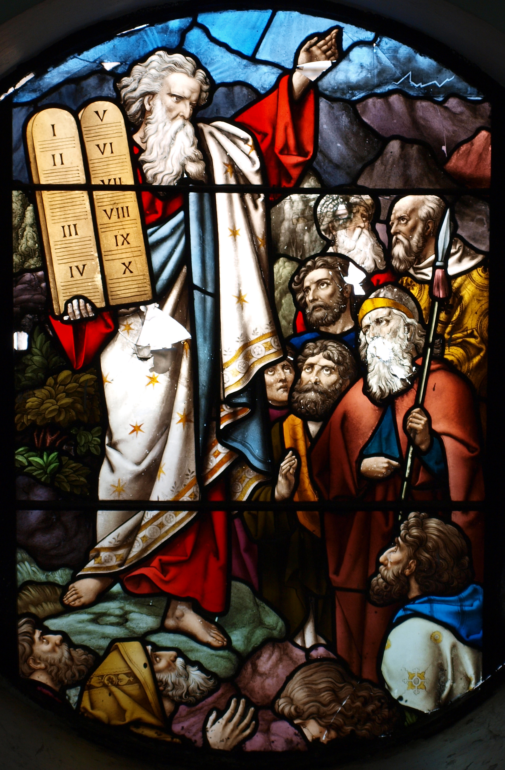 English Mission Hospital, Jerusalem